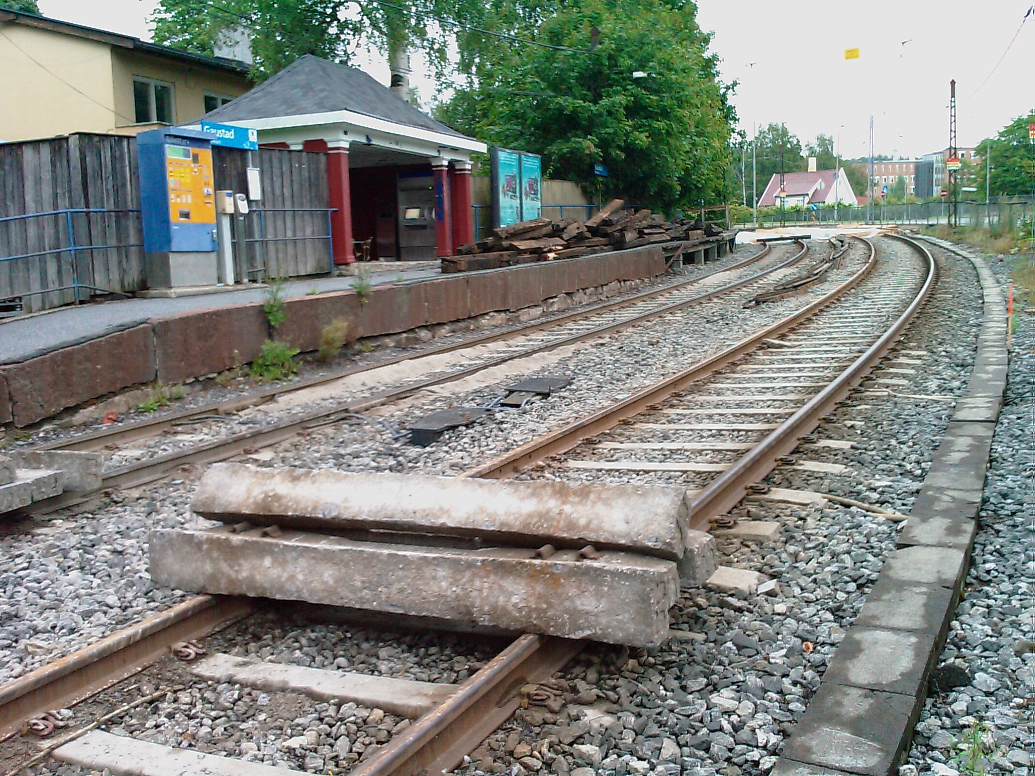 Oslo subway station Gaustad.